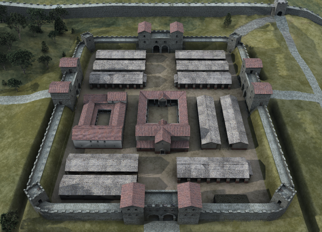 Overhead view of fort layout